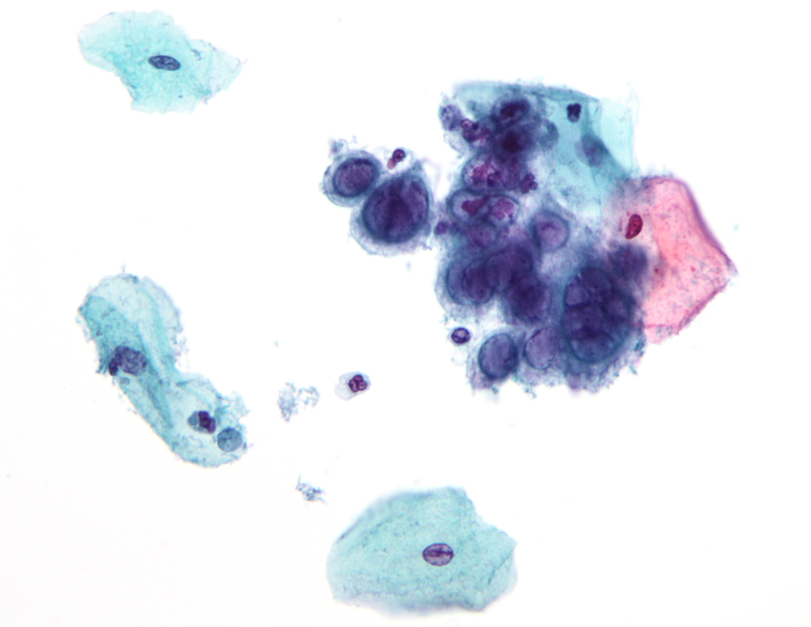 Micrograph showing the changes of herpes simplex virus (HSV). Pap test. Pap stain. The changes seen above may also been seen with the varicella zoster virus (VZV).